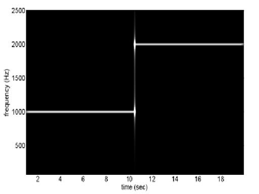 a signal with two frequency components after gabor transform